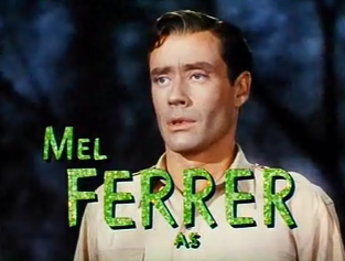 Cropped screenshot of Mel Ferrer from the trailer for the film Lili